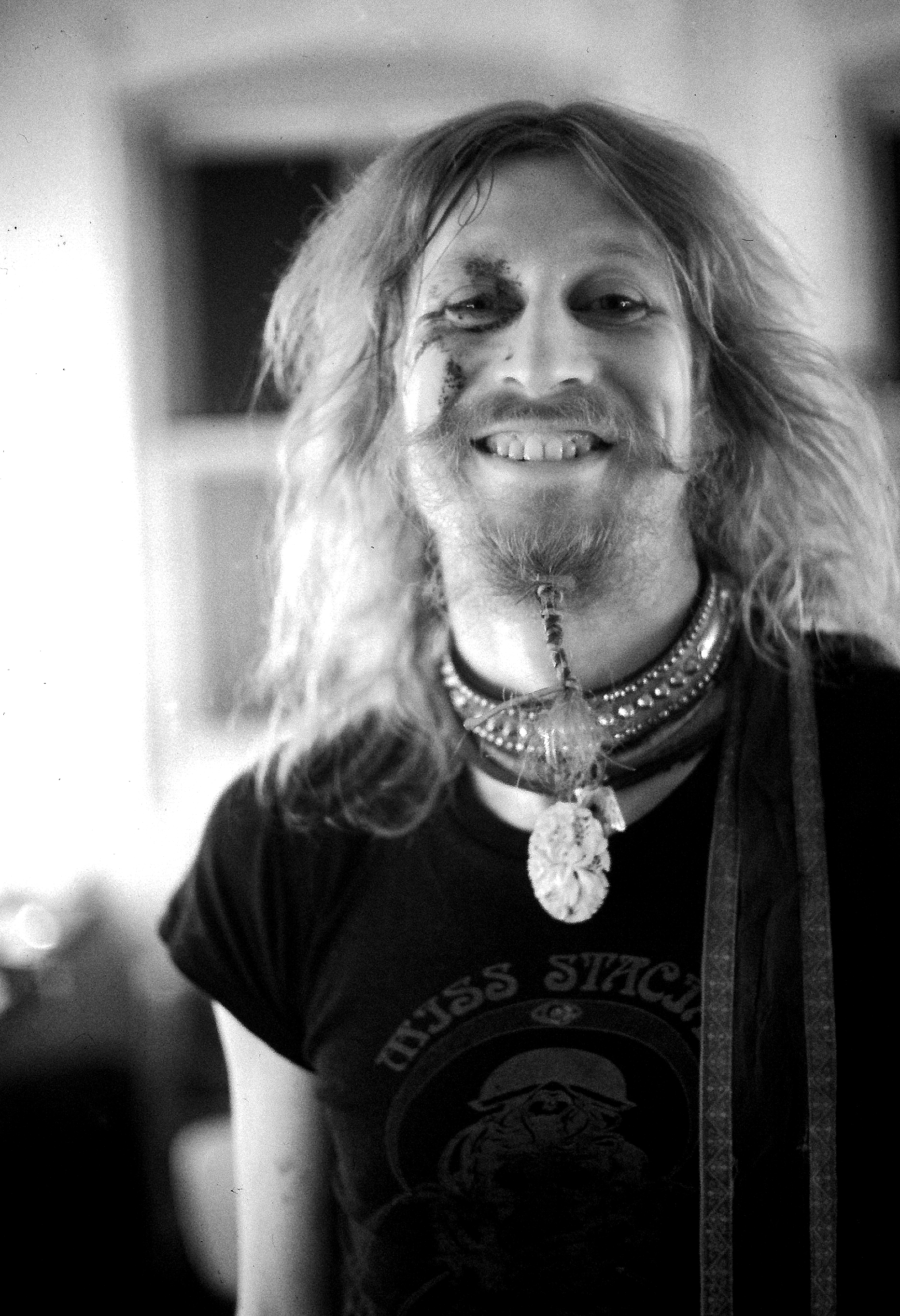 Nik Turner, British rock musician who founded the band Hawkwind